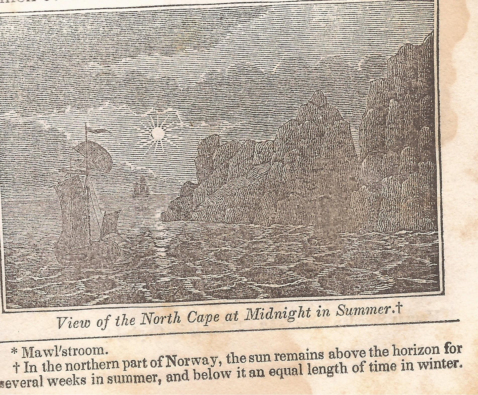 An image of the North Cape from the schoolbook "a practical system of Modern Geography' published in New York in 1837